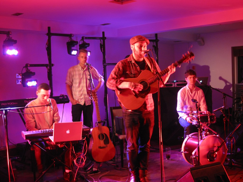 a band from Leeds